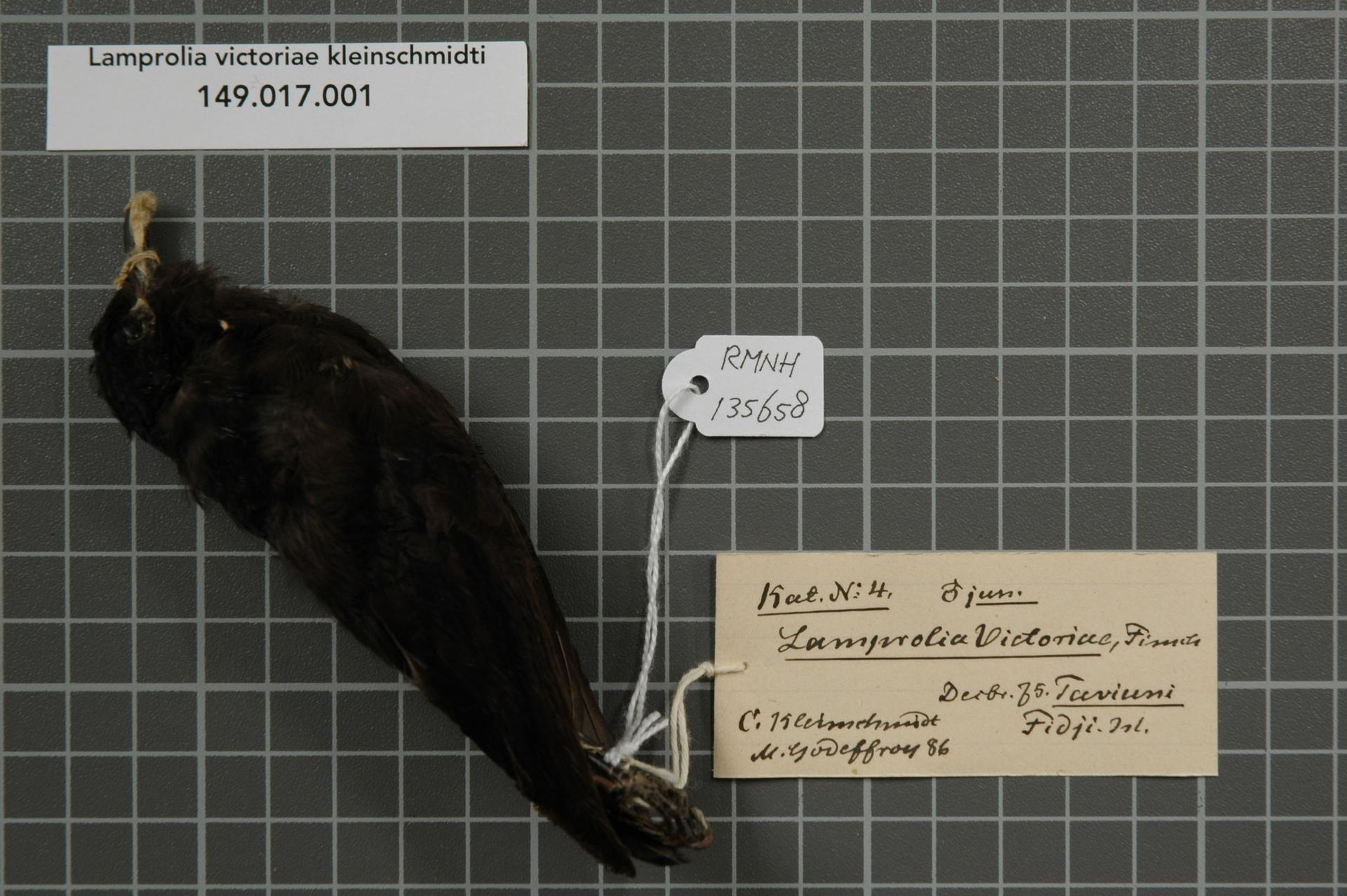 Lamprolia victoriae kleinschmidti Ramsay, 1876